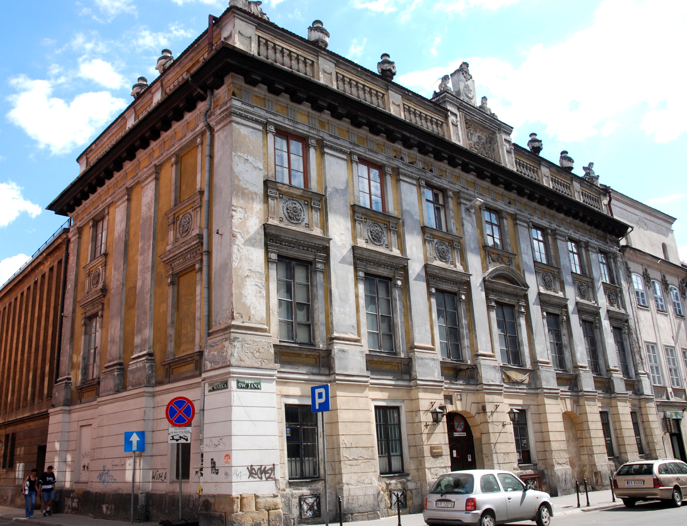 Płac Wodzickich (Palace of Wodziccy), św. Jana street, Kraków